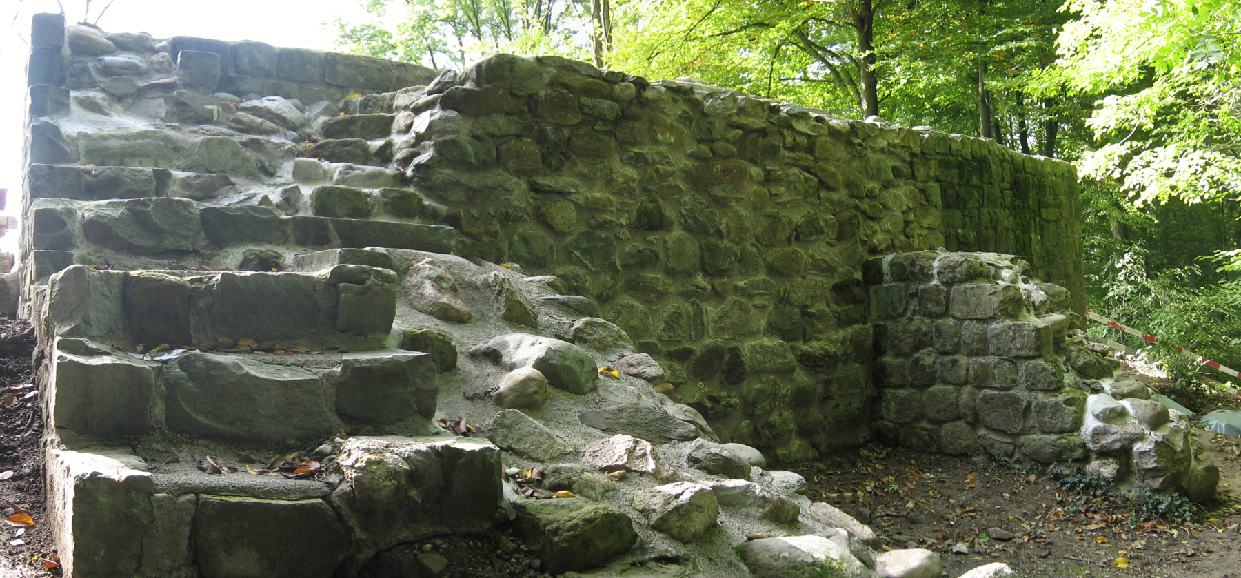 Burg Hünenberg, Zug, Schweiz